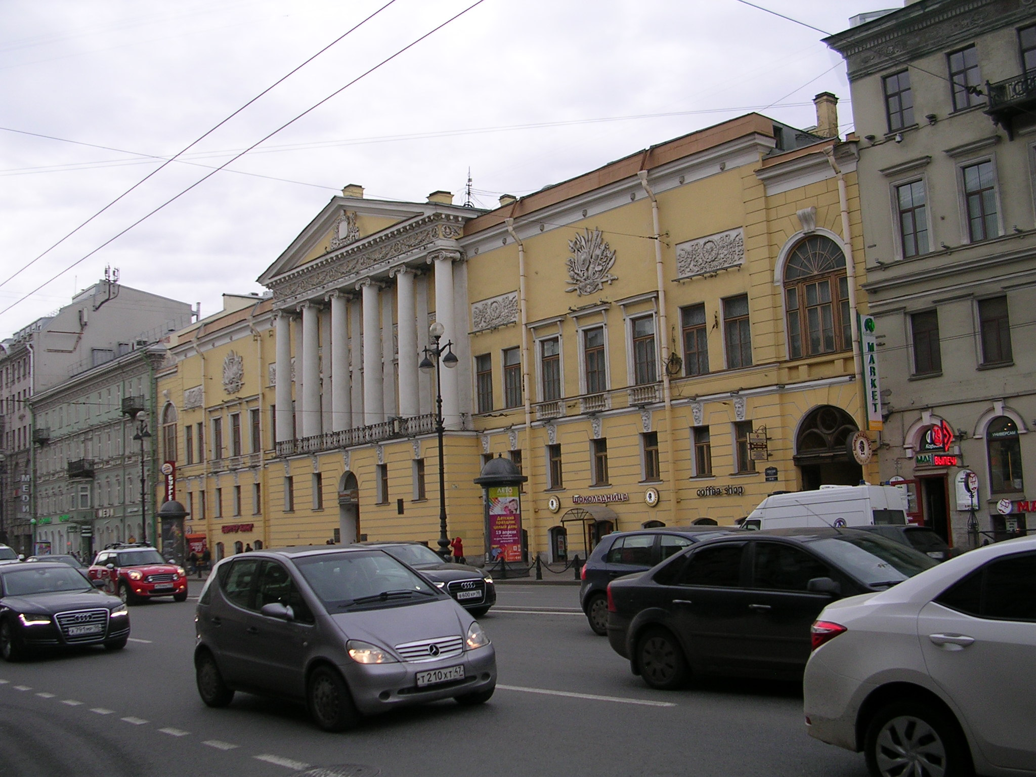 86 Nevsky Prospekt, St Petersburgh